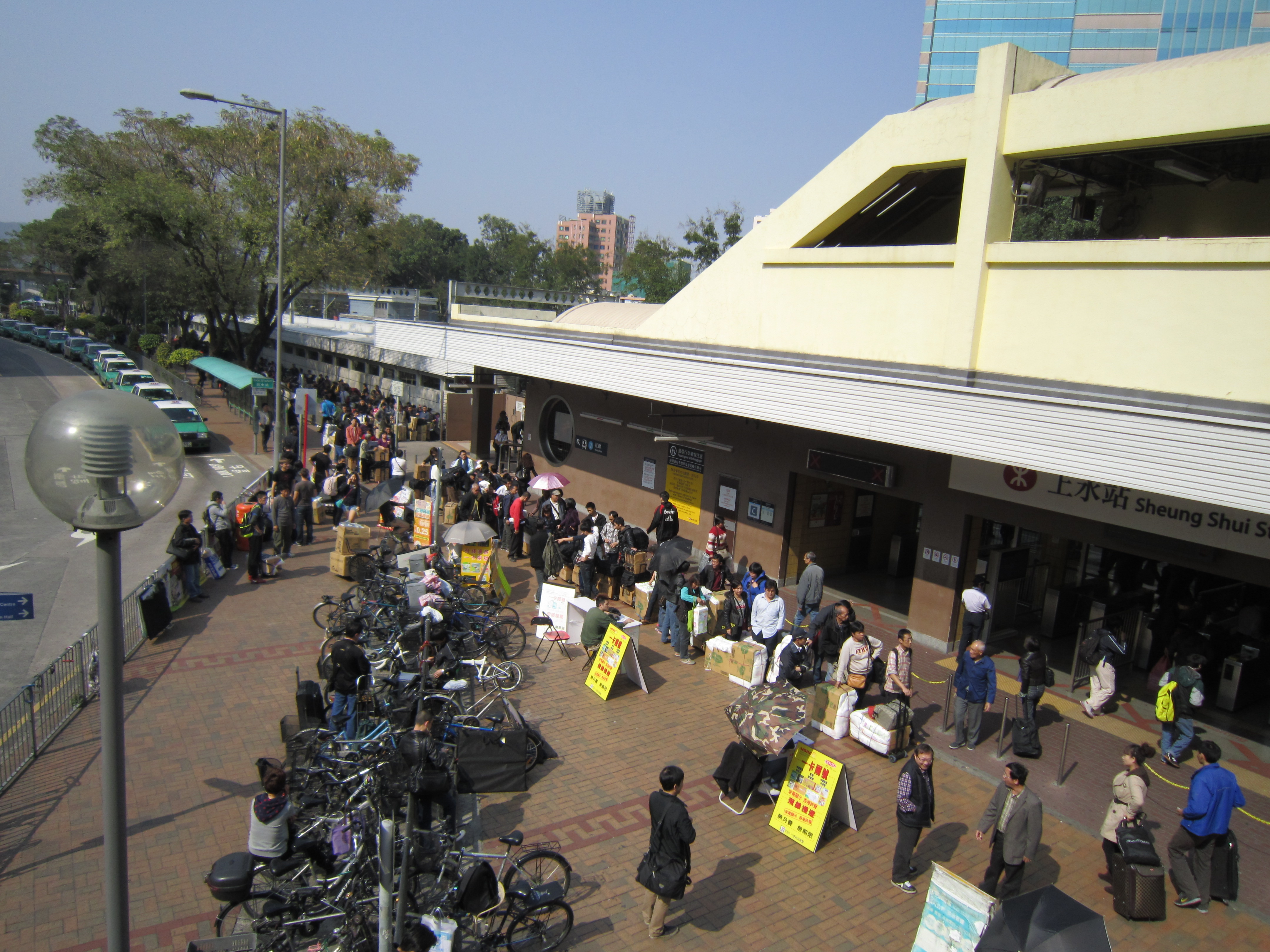 Parallel goods traders queuing outside SHS Exit C